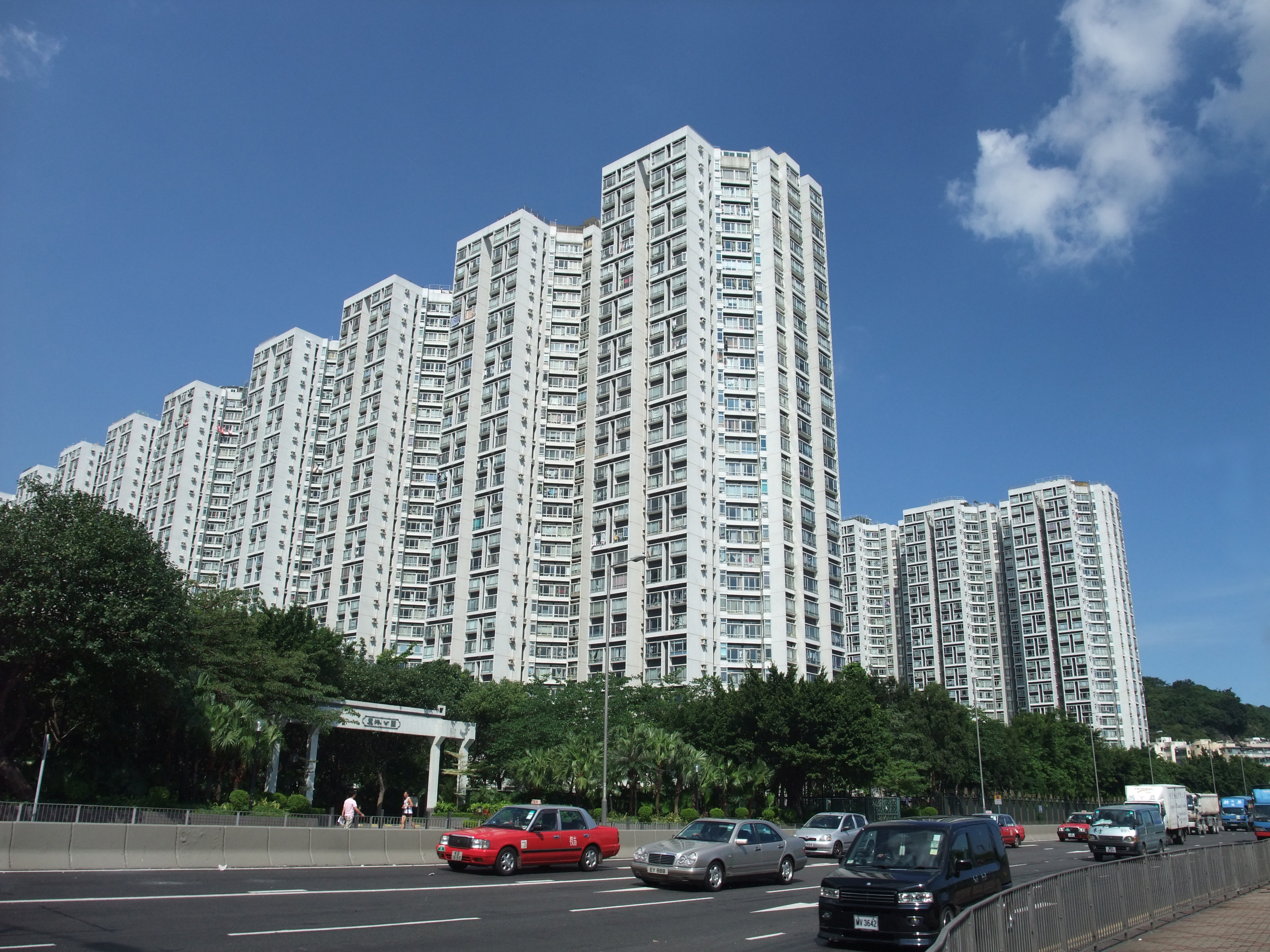 Photo of Laguna City